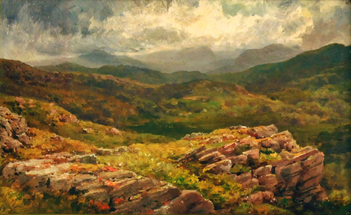 Painting by Samuel Henry Baker, crated about 1850-1900, Llanbedr, Snowdonia, Wales